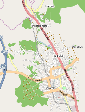 Pinkafeld Overview